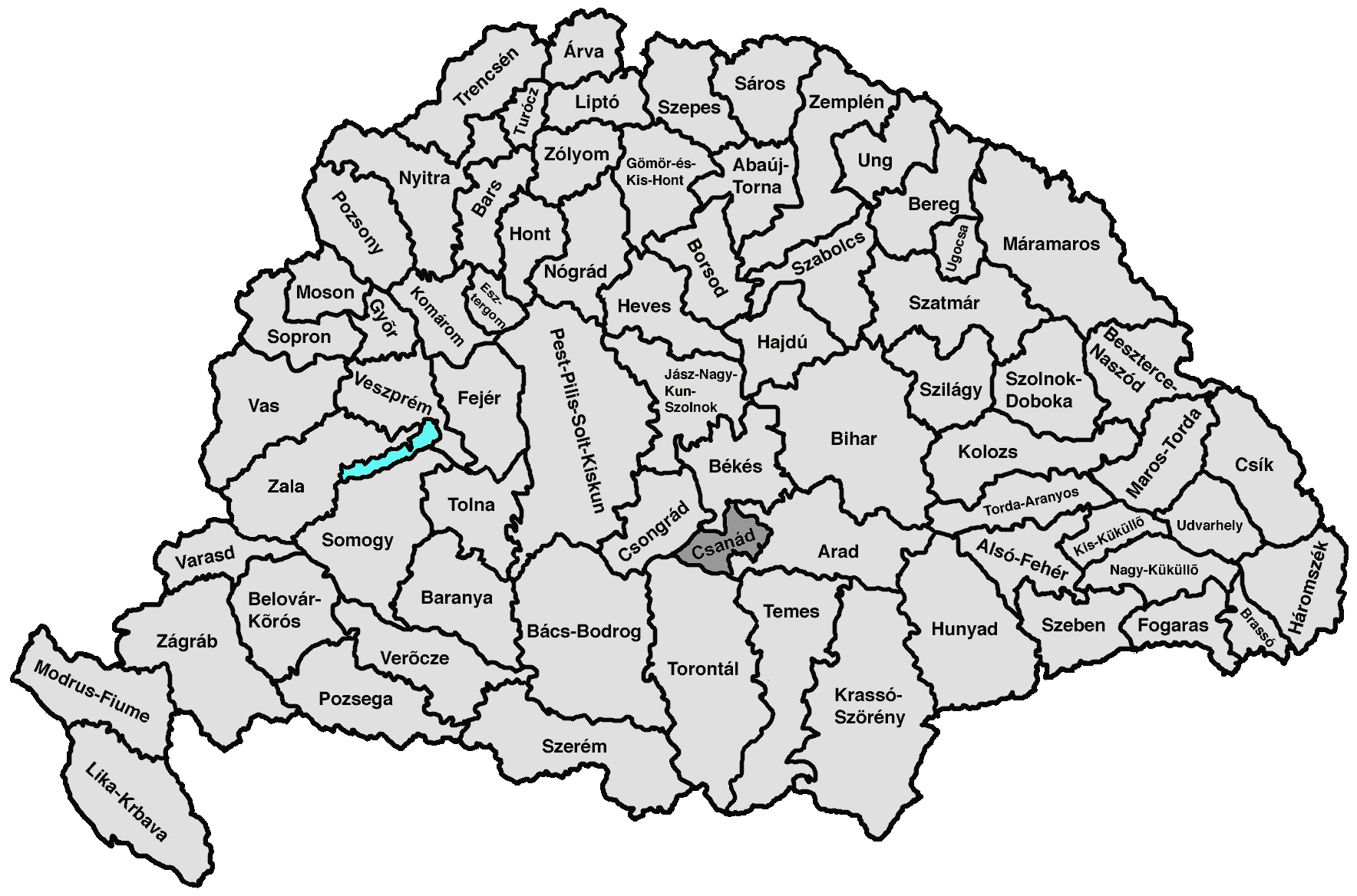 own edit of Image:Zala.png